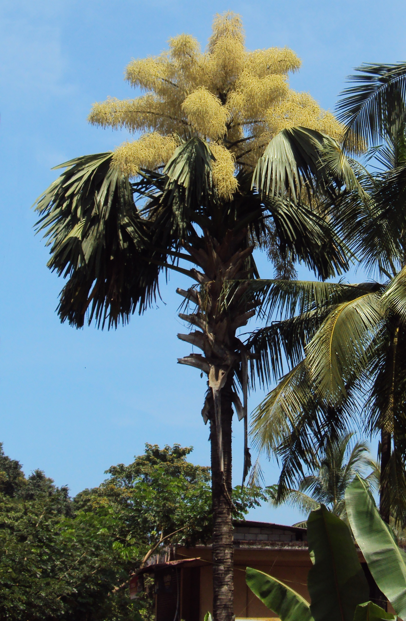 Corypha umbraculifera